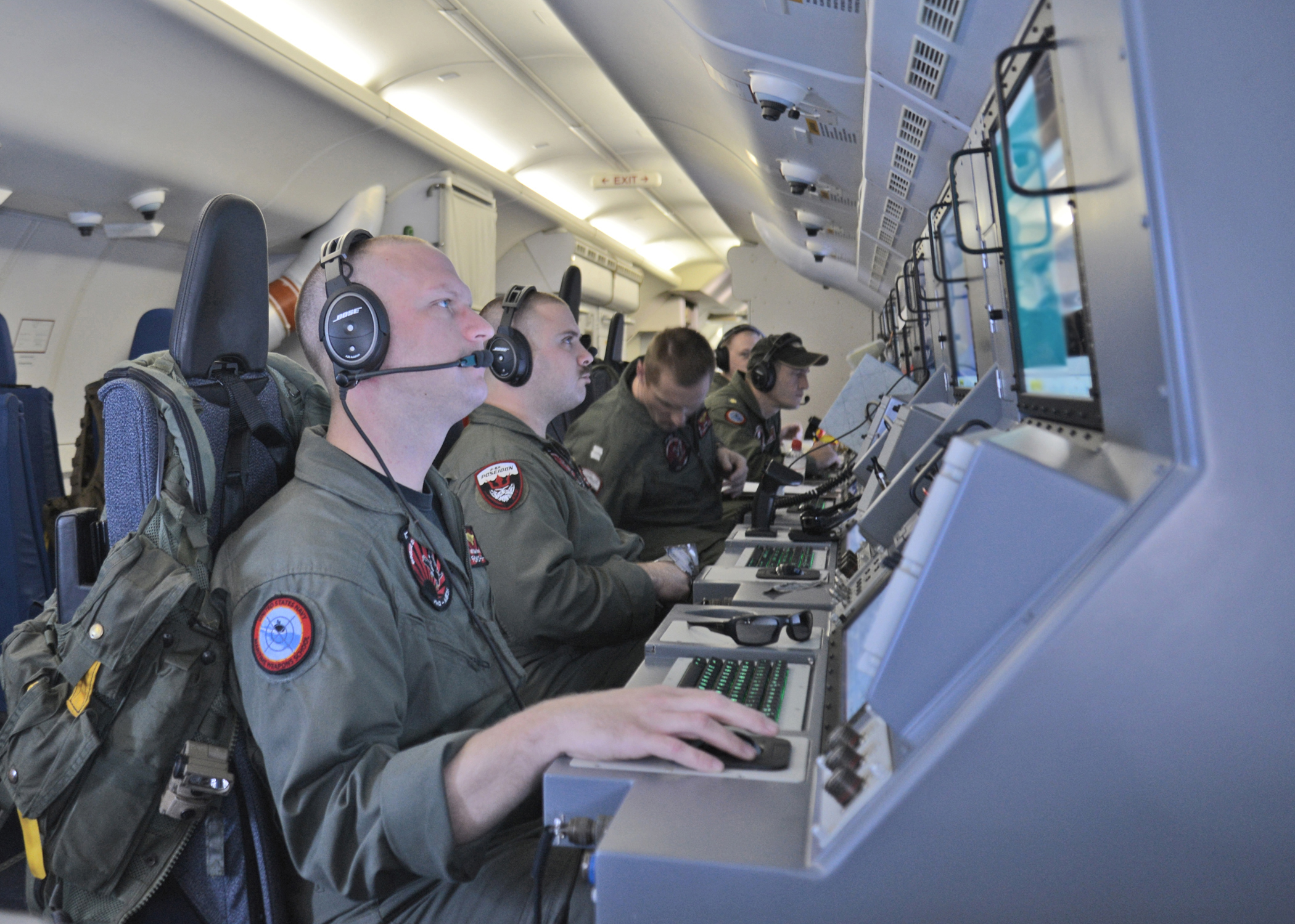 U.S. Navy crew members on board a Boeing P-8A Poseidon assigned to Patrol Squadron (VP) 16 man their workstations while assisting in search and rescue operations for Malaysia Airlines flight MH370. VP-16 was deployed in the U.S. 7th Fleet area of responsibility.